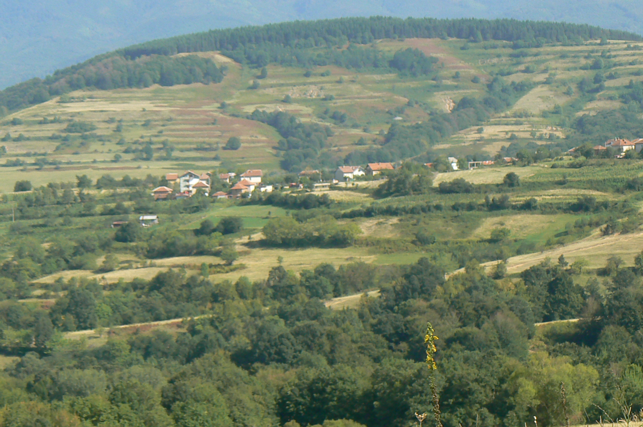 Village Milanovo, Bulgaria, as seen from the road to Berkovitsa